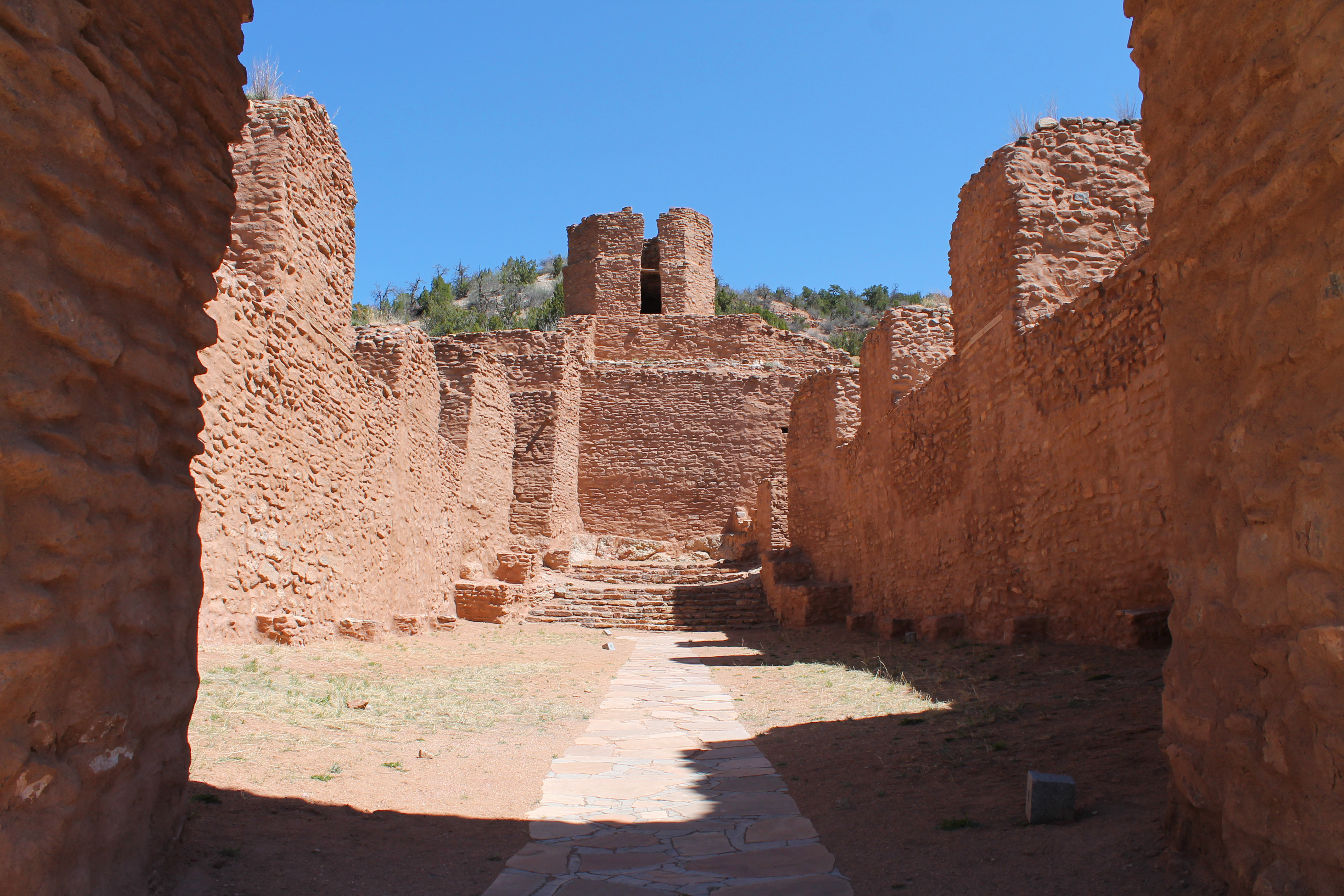 San Jose de los Jemez Mission and Giusewa Pueblo Site